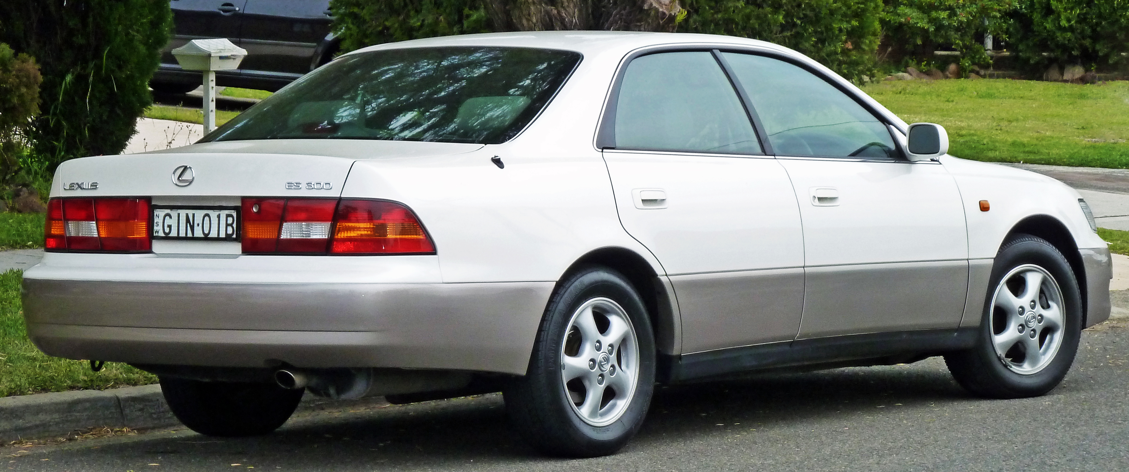 1997 Lexus ES 300 (MCV20R) LXS sedan. Photographed in Taren Point, New South Wales, Australia.